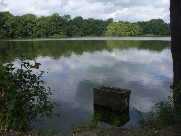 Nature reserve Riddagshausen